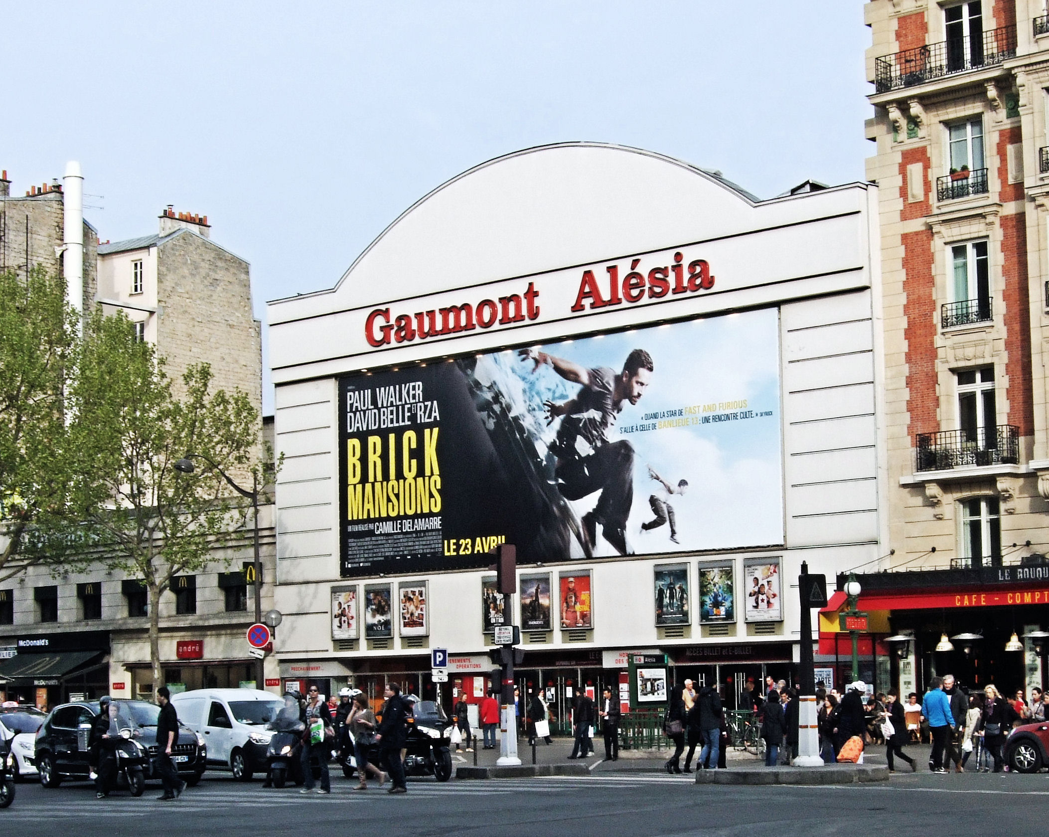 The Gaumont Cinema, Alesia, 14th Arrondissement - Paris.